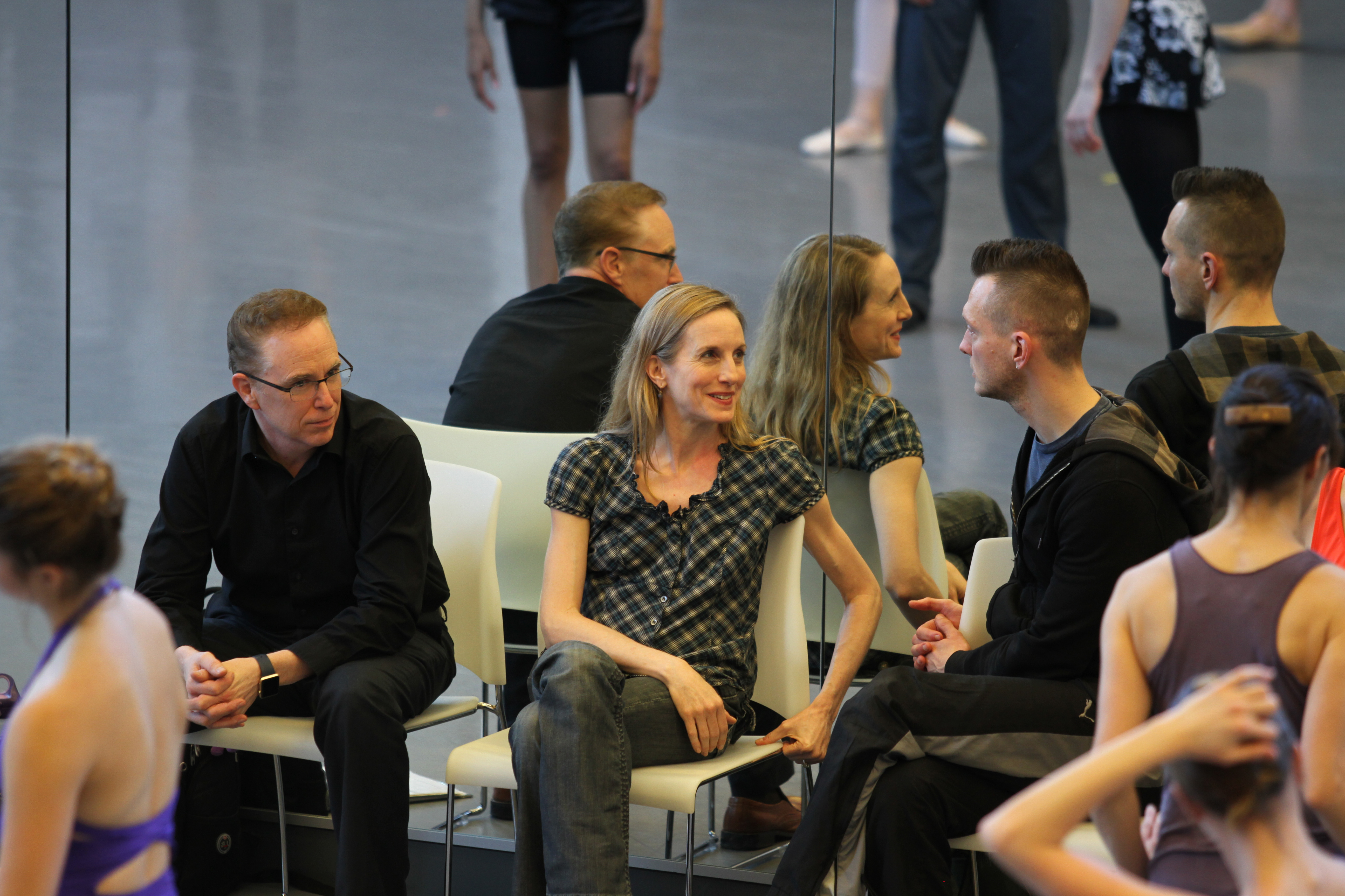 "Rite of Spring" Rehearsals. (Left to Right) Devon Carney, Wendy Whelan, and "Rite of Spring" Choreographer Adam Hougland. Photography by Elizabeth Stehling, Kansas City Ballet.